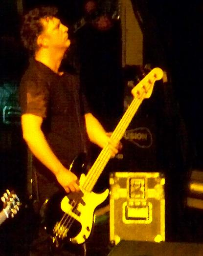 Bassist Ben Shepherd of Soundgarden performing at Great Woods (Comcast Center) in Mansfield, MA.